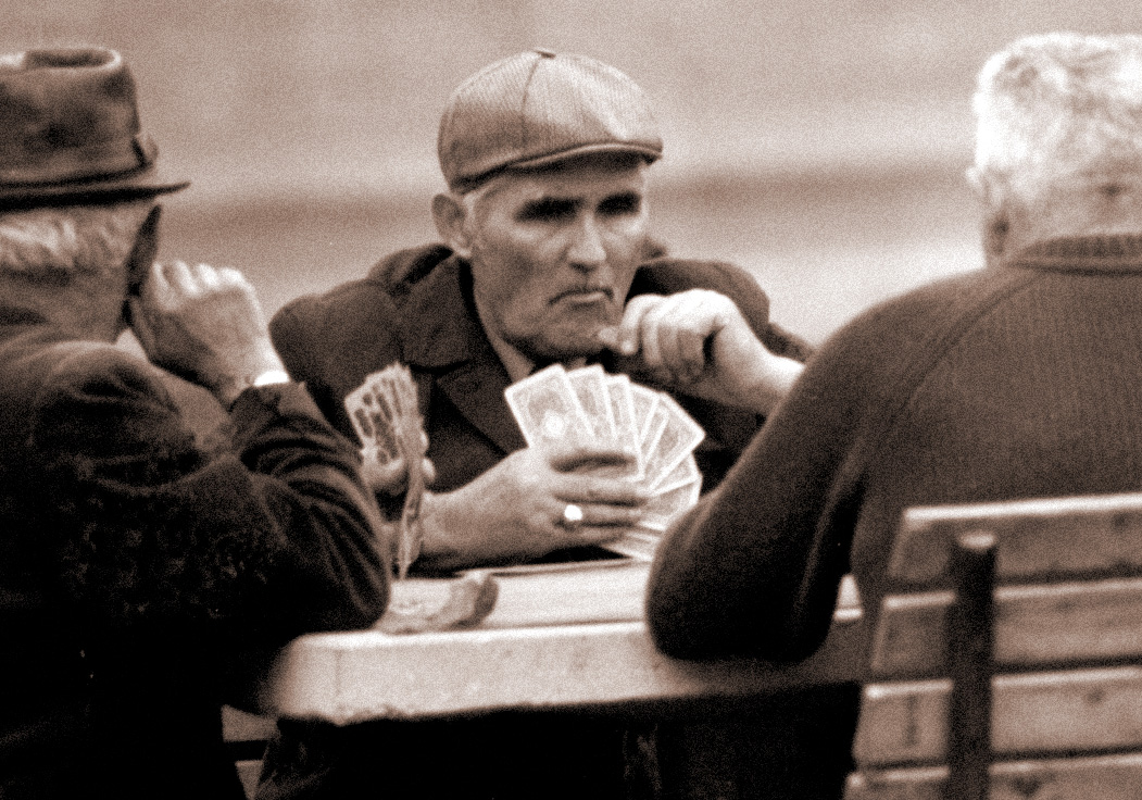 Three outdoor bridge-player, Szeged, Hungary - march 1977